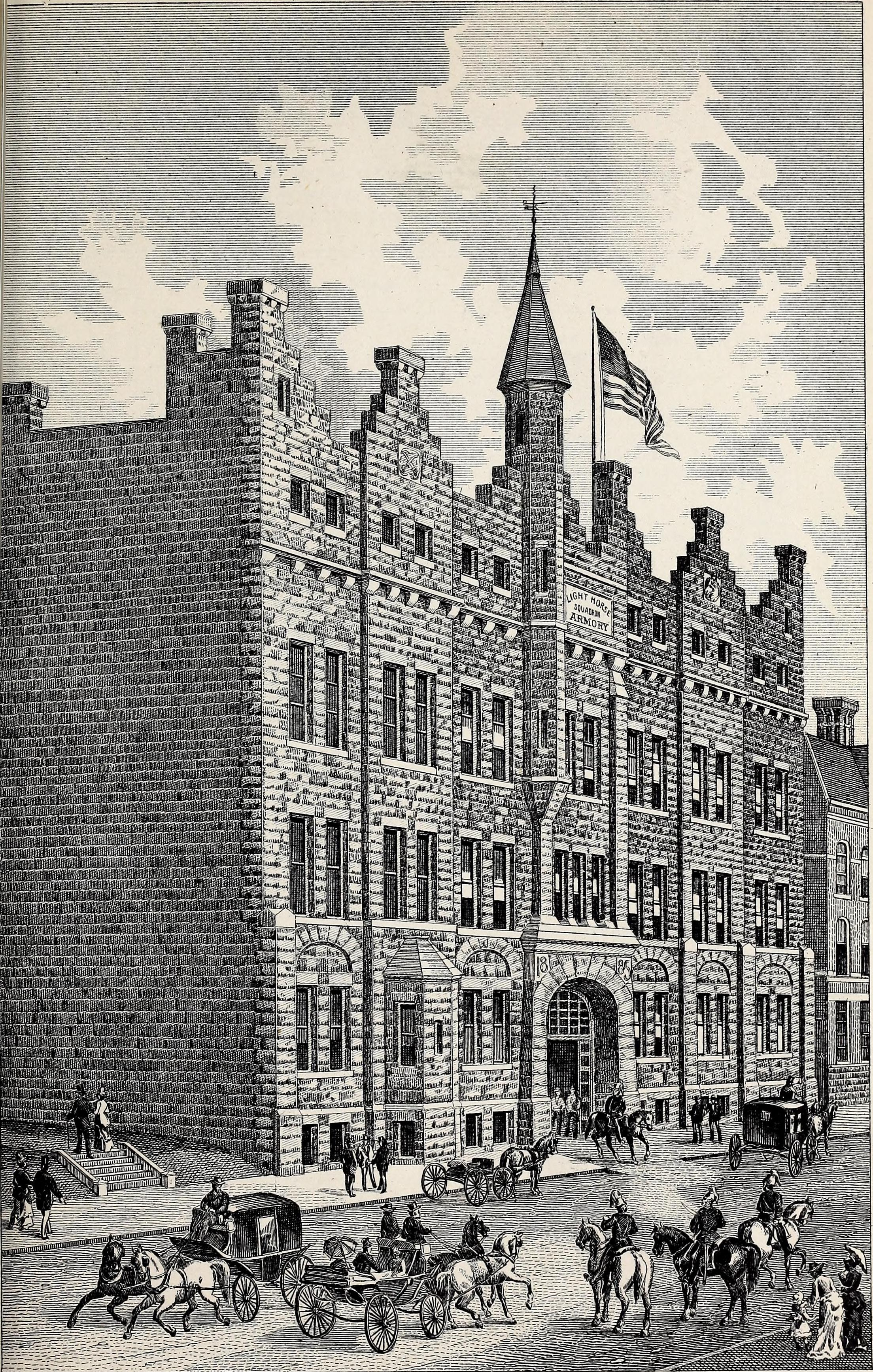 Title: The Wisconsin blue book Year: 1893 (1890s) Authors: Wisconsin. Office of the Secretary of State. Legislative manual of the State of Wisconsin Wisconsin. Bureau of Labor and Industrial Statistics. Blue book of the State of Wisconsin Industrial Commission of Wisconsin Wisconsin. State Printing Board Wisconsin. Legislature. Legislative Reference Library Wisconsin. Legislature. Legislative Reference Bureau Wisconsin. Blue book of the State of Wisconsin Subjects:Light Horse Squadron Armory, Wisconsin (1893) Publisher: Madison Text Appearing Before Image: ' Text Appearing After Image: (STATE ARSENAL) MILWAUKE E. PRESIDENTS PRO TEMPORE OF THE U. S. SENATE. PRESIDENTS PRO TEMPORE OF THE UNITED STATES SENATE. A list of the Senators who have been elected by the Senate to preside over that body inthe absence of the Vice-President, or while he was acting as President, or while the officeof Vice-President was vacant by reason of the death of the incumbent. Years. 1789-921792 1792- 94 1794- 95 1795- 96 1793- 9717971797 1797- 981798 1798- 991799 1799-18001800 1800- 011801 1801- 02 1802- 03 1803- 04 1804- 051805 1805- 08 1808- 091809 1809- 10 1810- 11 1811- 12 1812- 13 1813- 14 1814- 181818-191820-261826-281828-32 18321832-34 1834- 35 1835- 36 1836- 41 1841- 42 1842- 461846-491850-521852-541854-57 18571857-611861-64 1864- 65 1865- 671867-691869-731873-751875-791879-81 18811881-831883-851885-871887-91 18D1 Name. John Langdon Richard H. Lee , John Langdon Ralph Izard Henry Tazewell , Samuel Livermore .. William Bingham William Bradford . ., Jacob Read Theodore Sedgwick ., John